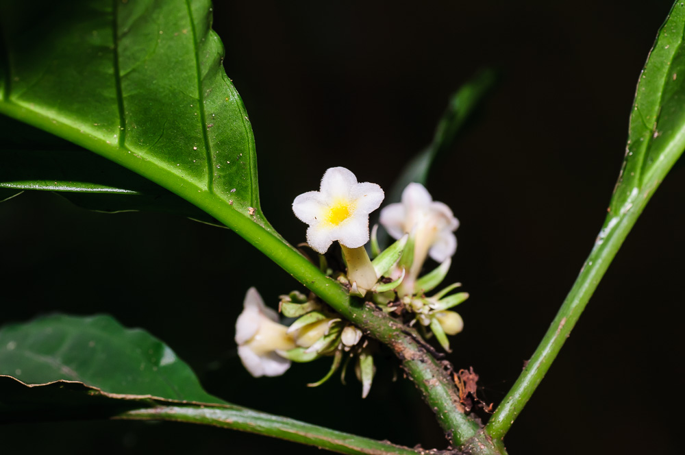 Silvianthus bracteatus (Carlemanniaceae). Voucher: Swenson et al. 1414. Vietnam, Ninh Bình Province, Cuc Phuong National Park: along the circular trail from visitor center (Bang), alt. 300 masl (20.34833 105.58111). Swedish Museum of Natural History expedition to Vietnam 2013, sponsored by National Geographic Global Exploration Fund Northern Europe. Photo: Johannes Lundberg